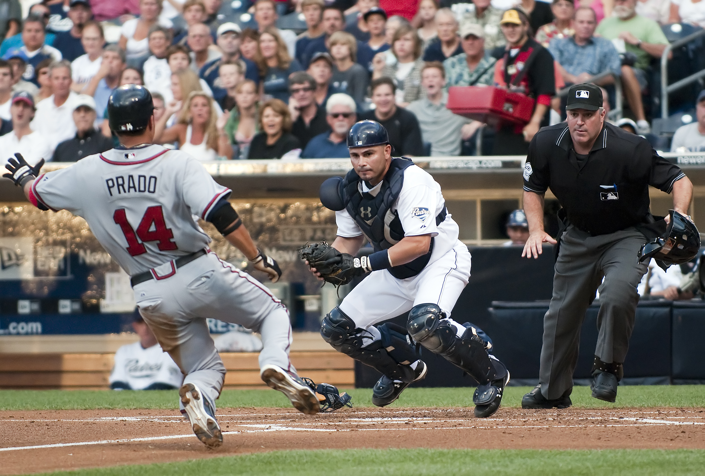 Martín Prado is tagged out by Eliézer Alfonzo.